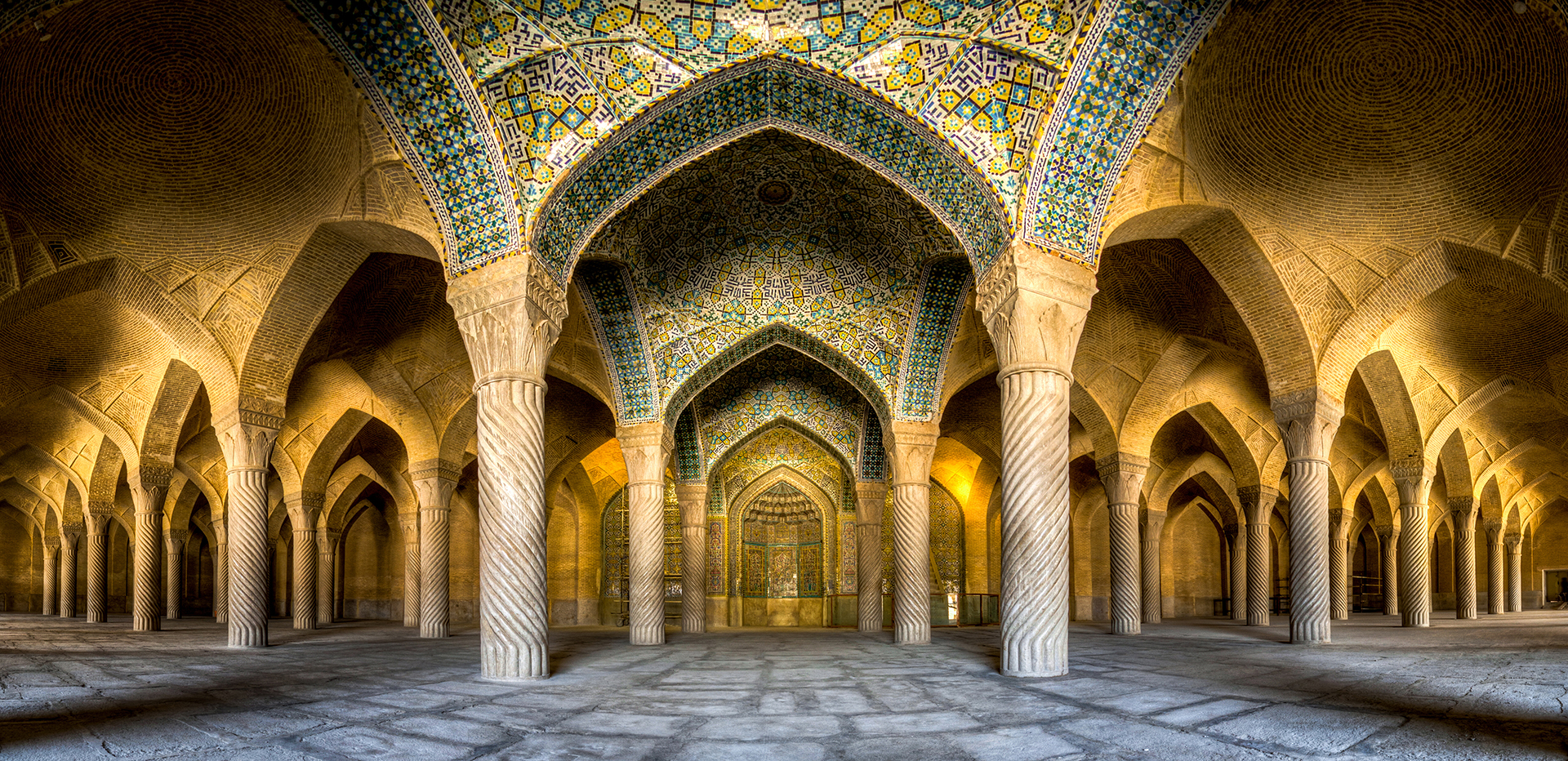 A shot from the interior of Vakil Mosque in Shiraz, Iran